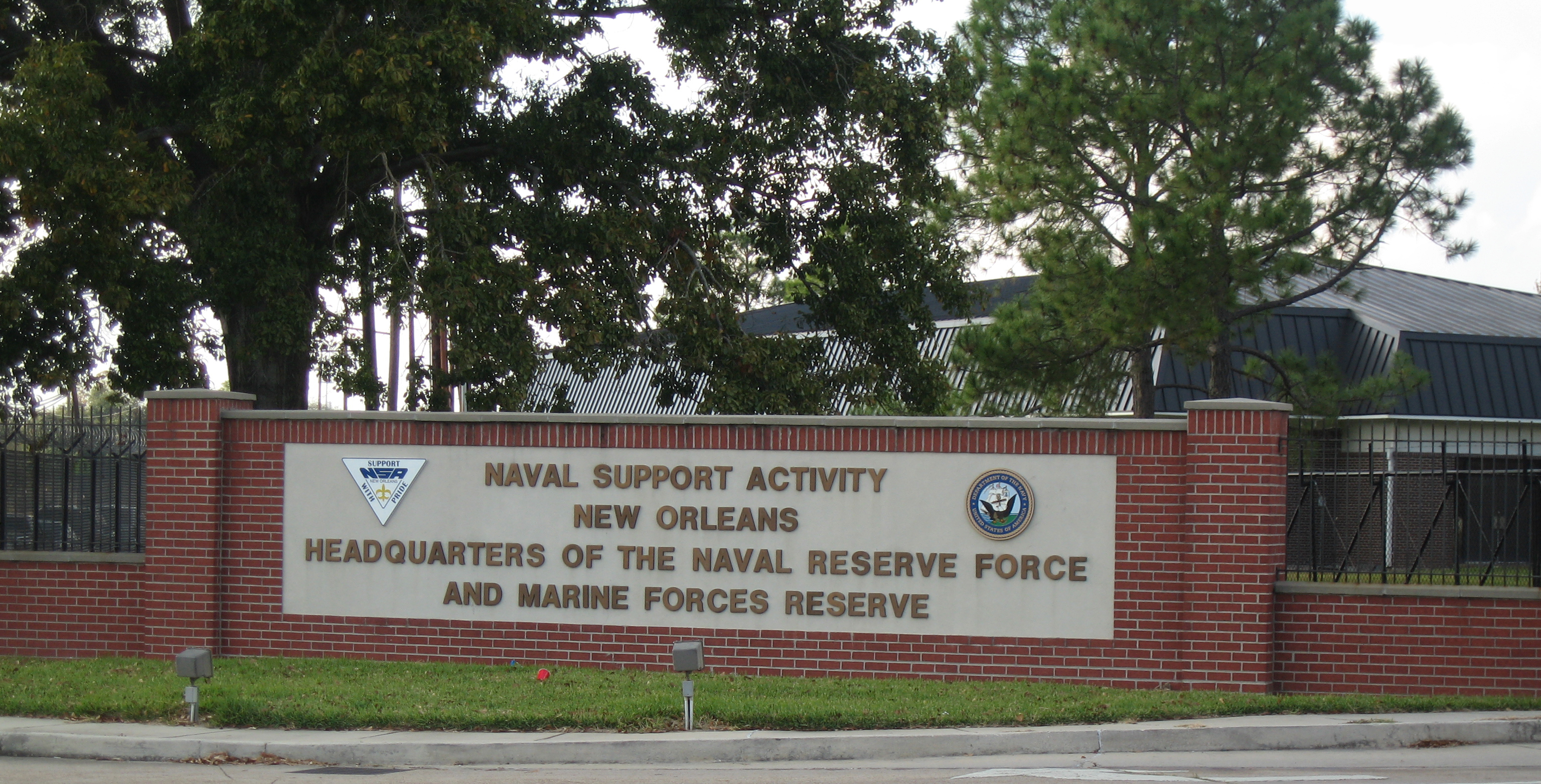 Sign at front gate of the Naval Support Activity New Orleans (WestBank) located on Shirley Drive at intersection with General Meyer Avenue in the Algiers Neighborhood of New Orleans, Louisiana. The address for the West Bank side of the base is 2300 General Meyer Avenue.